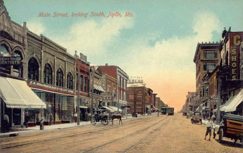 Main Street, looking south, Joplin, Missouri